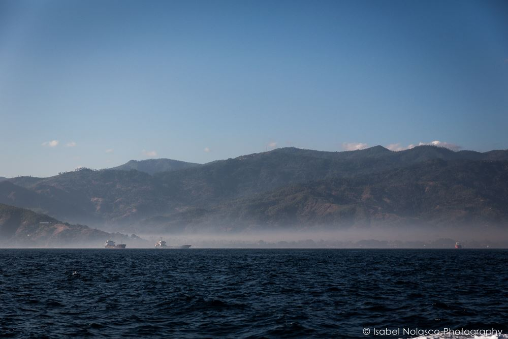 Mountains of Díli and boats, seen from the sea.